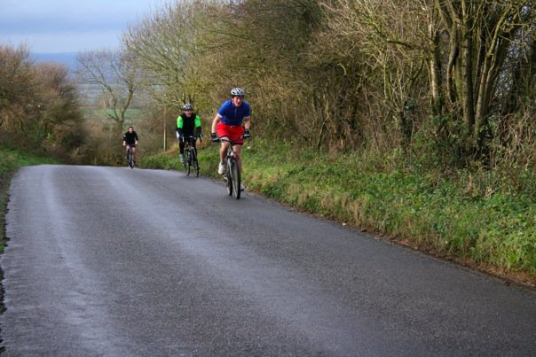 Wadham Rowers race up Dark Lane